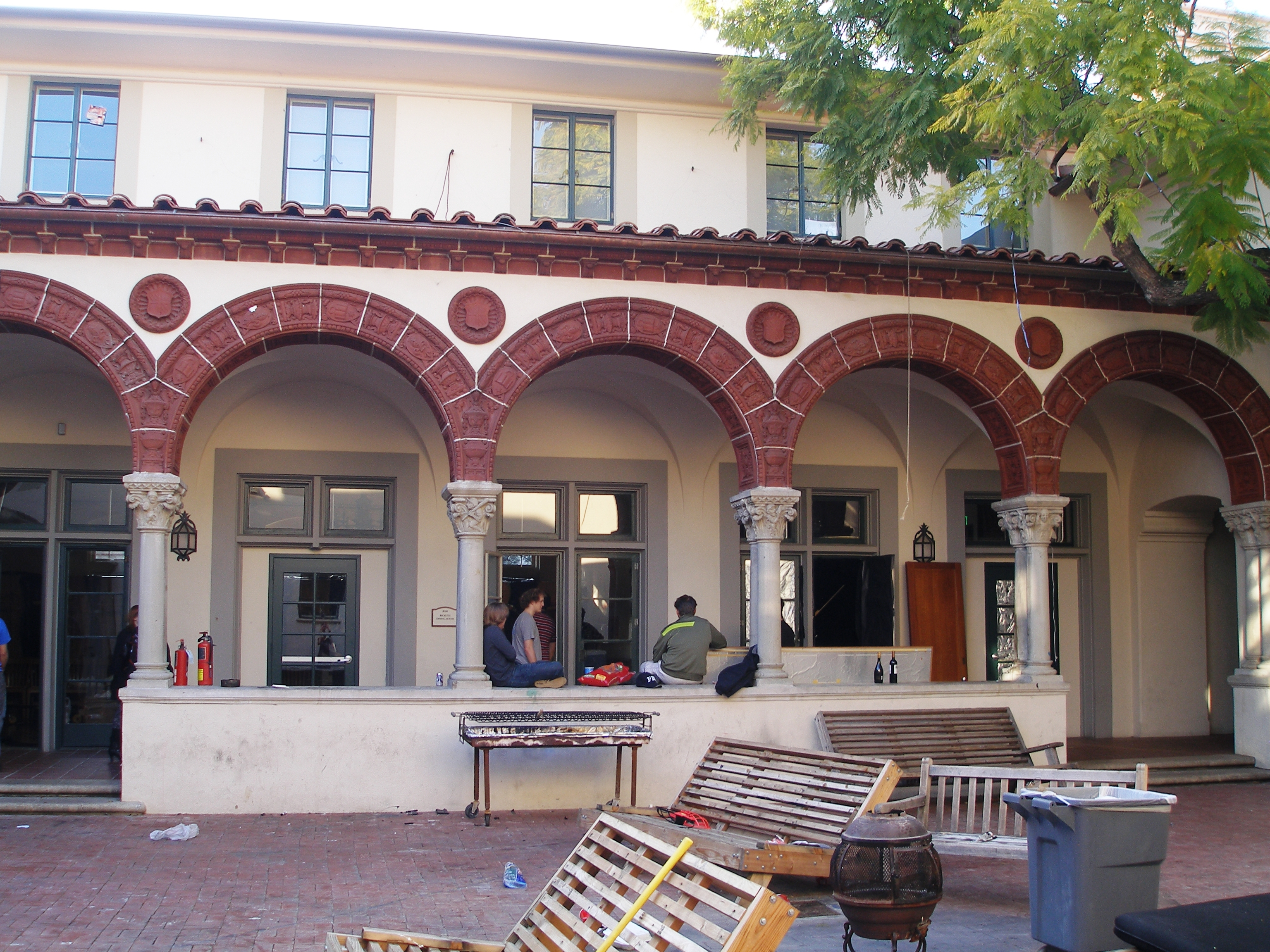 Ricketts House courtyard at the California Institute of Technology in February 2008.